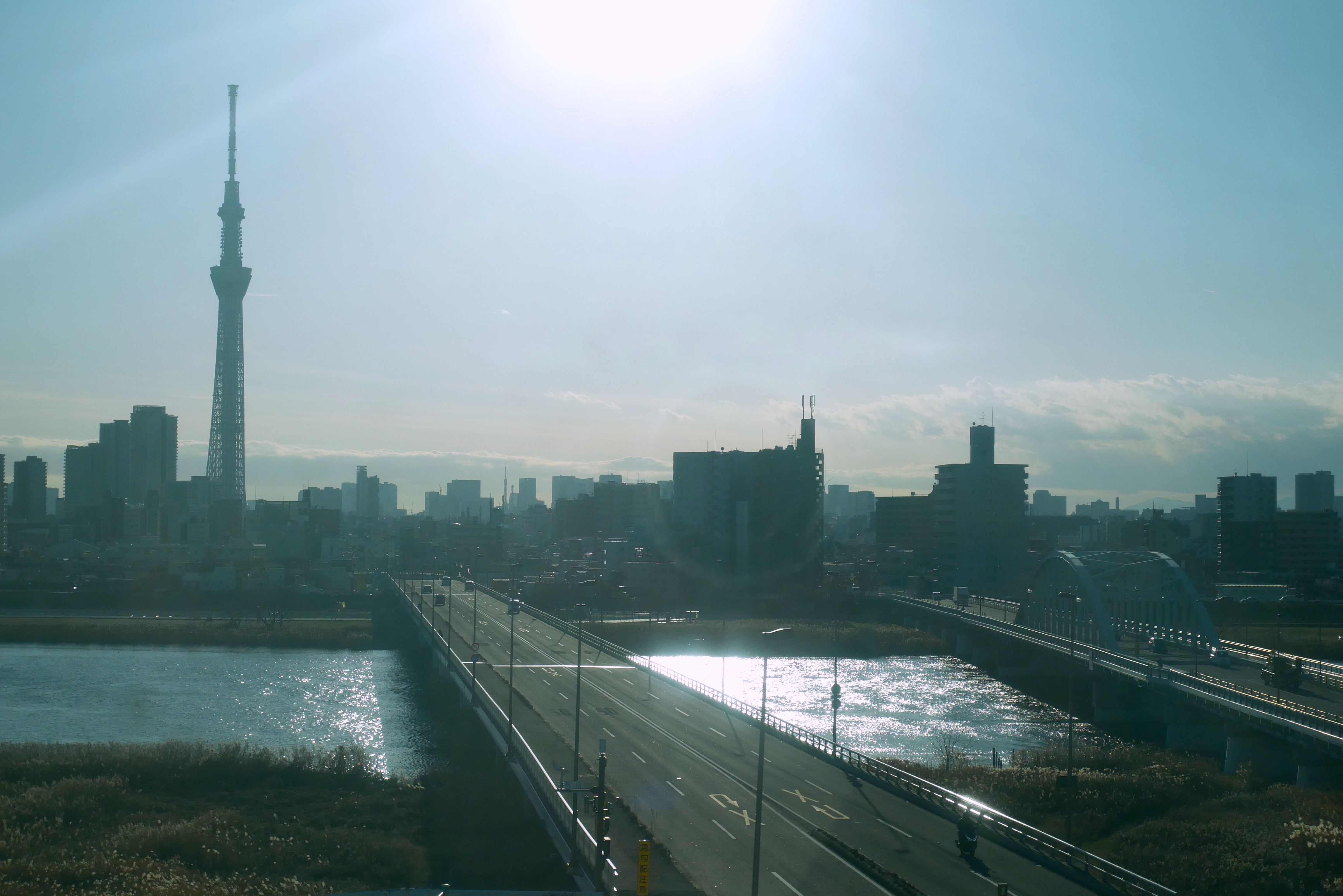 新四ツ木橋 (Shinyotsugi Bridge) Panasonic Lumix DMC-GX7 Mark II